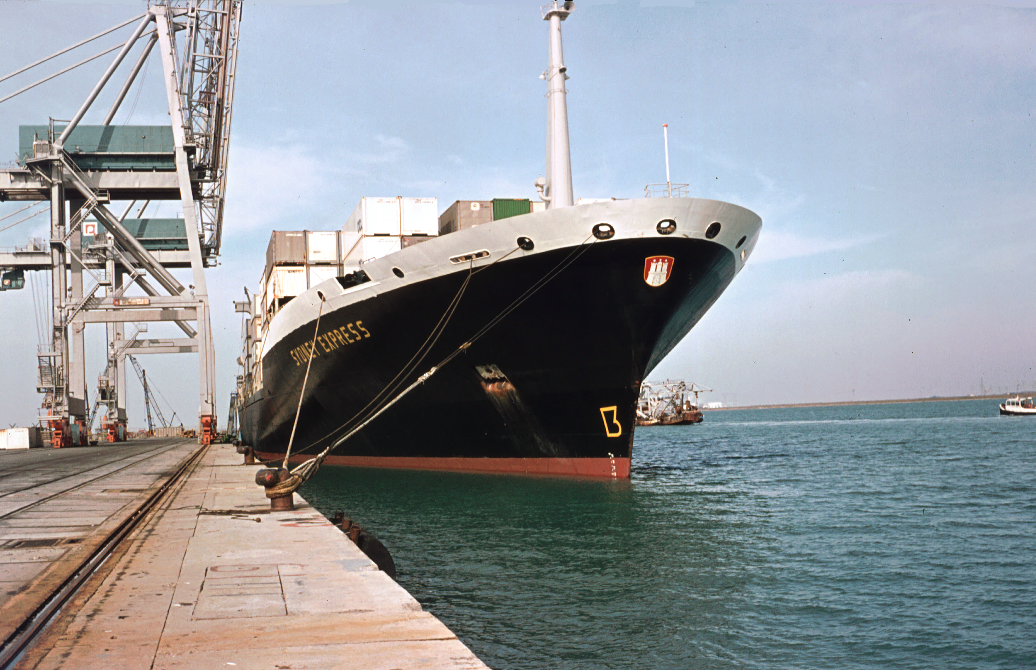 The Hapag-Lloyd Container Ship Sydney Express in the French port of Fos-sur-Mer - 1976